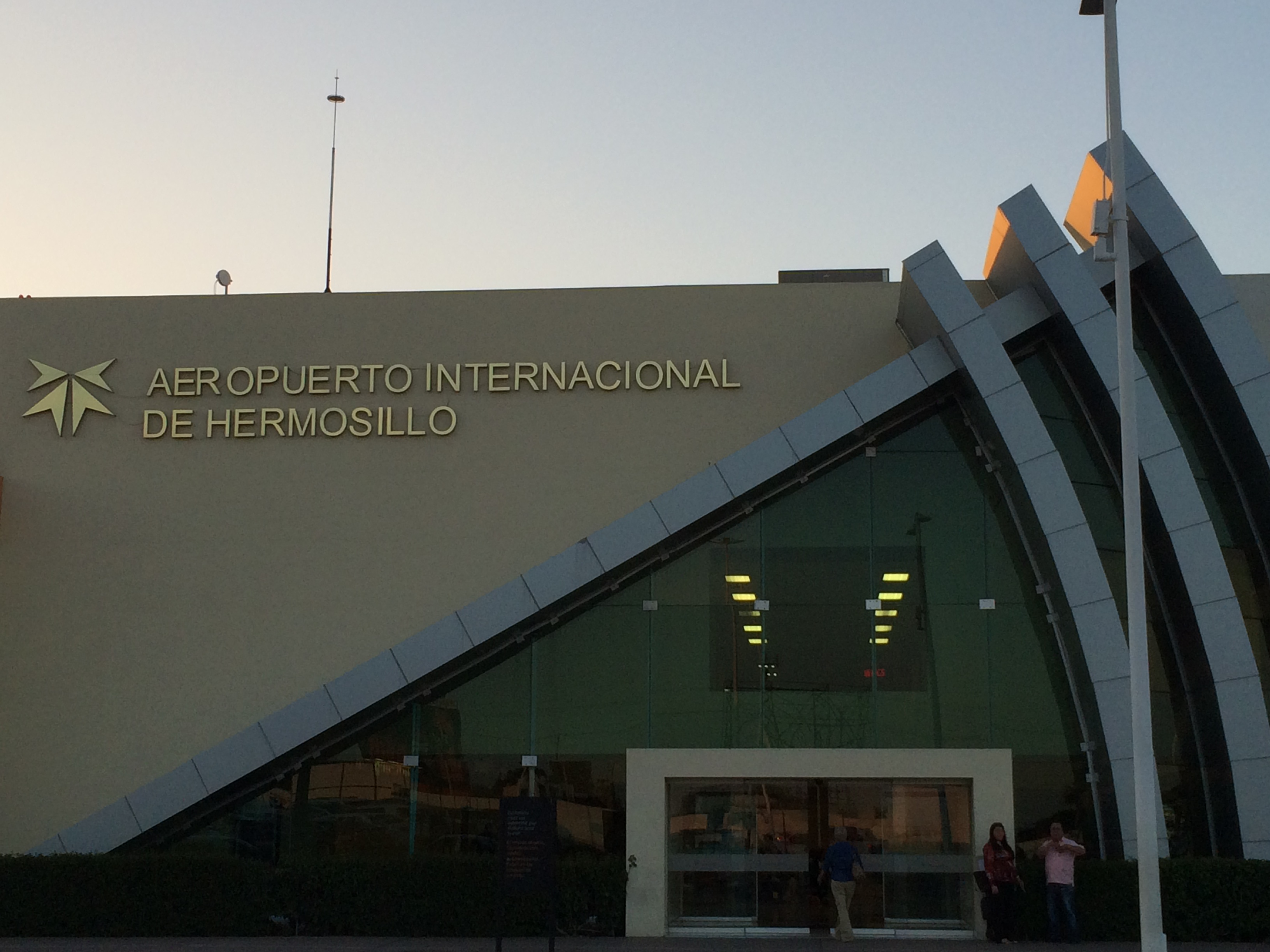 Airport's main entrance in Hermosillo, Mexico.